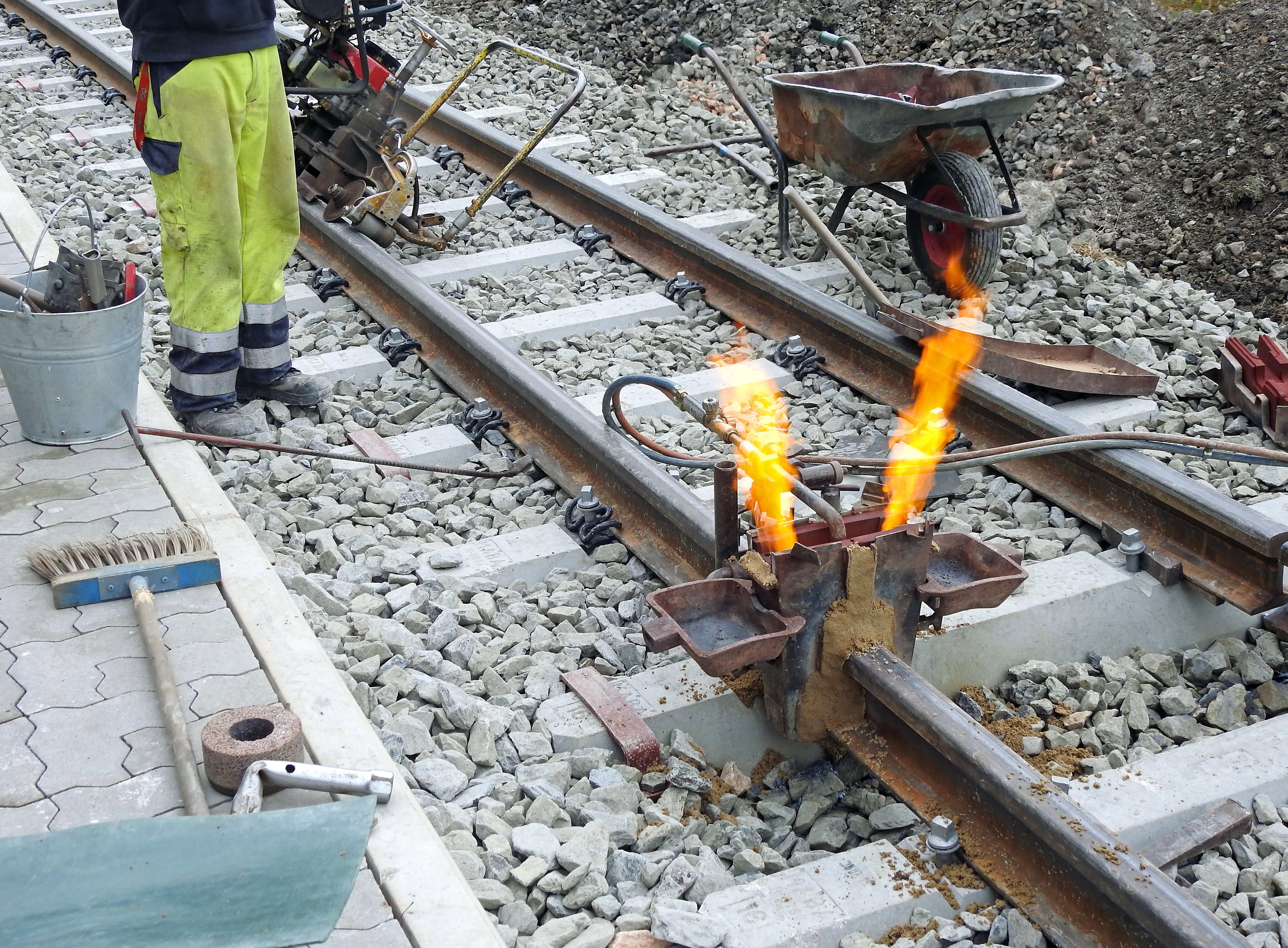 Thermite rail welding, Pinzgauer Lokalbahn, Zell am See, Salzburg (state), Austria.